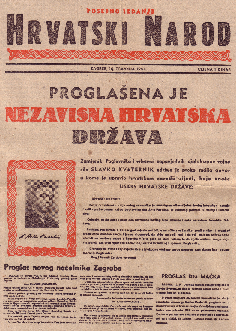 Cover of newspaper "Hrvatski narod", proclamation of Independent State of Croatia